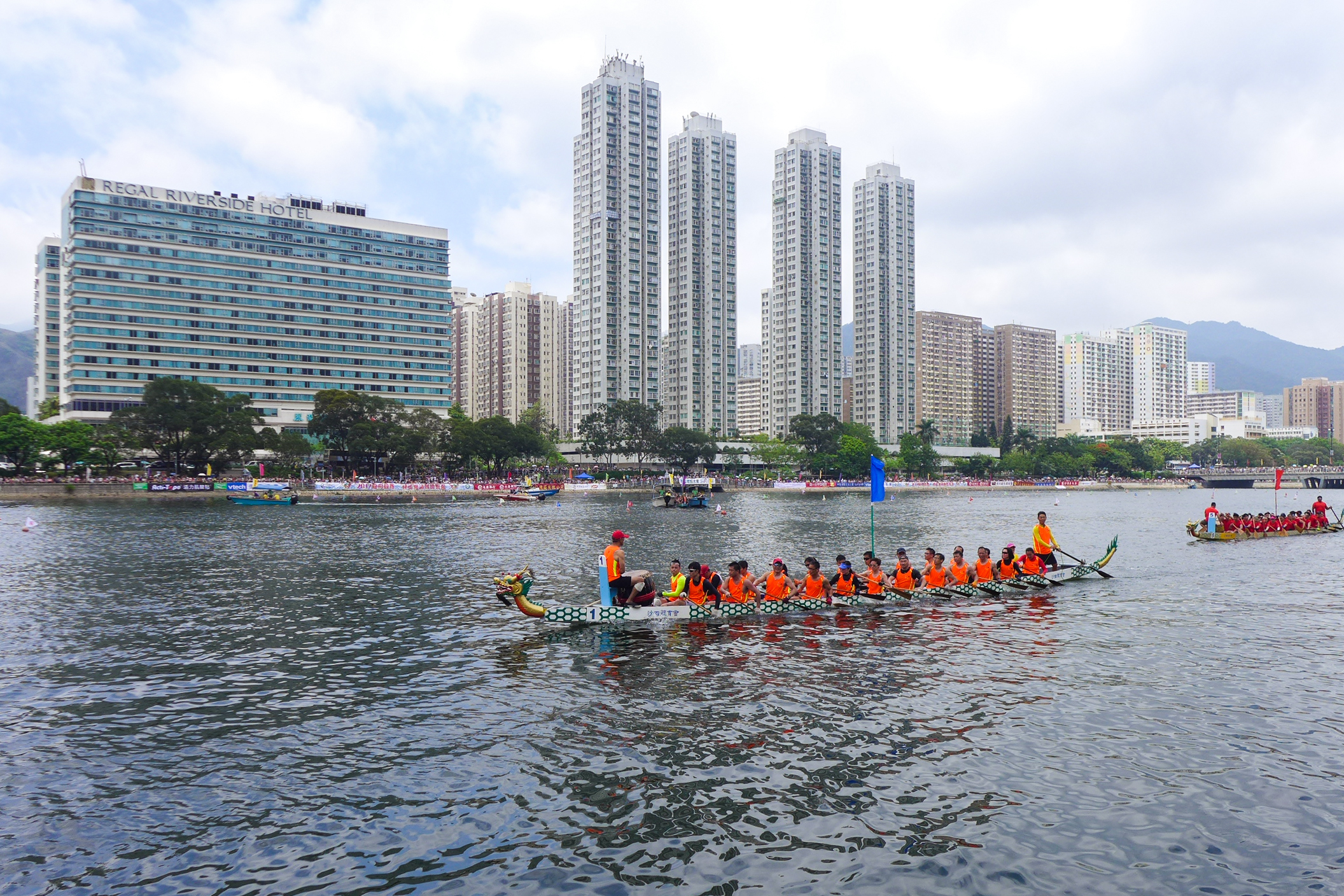 Dragon Boat Festival in Shing Mun River